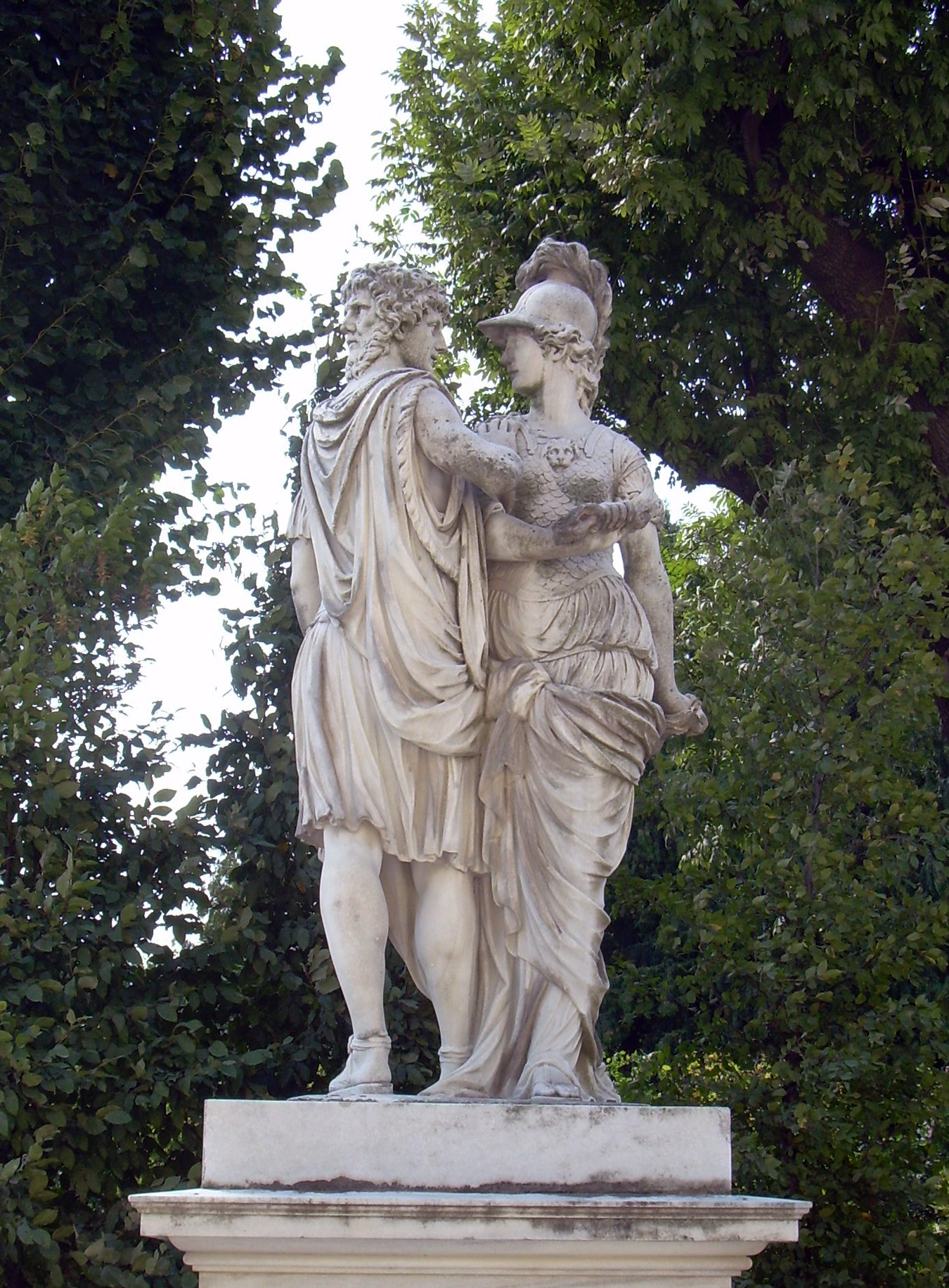 Statue of Janus and Bellona, Schönbrunn Garden, Vienna